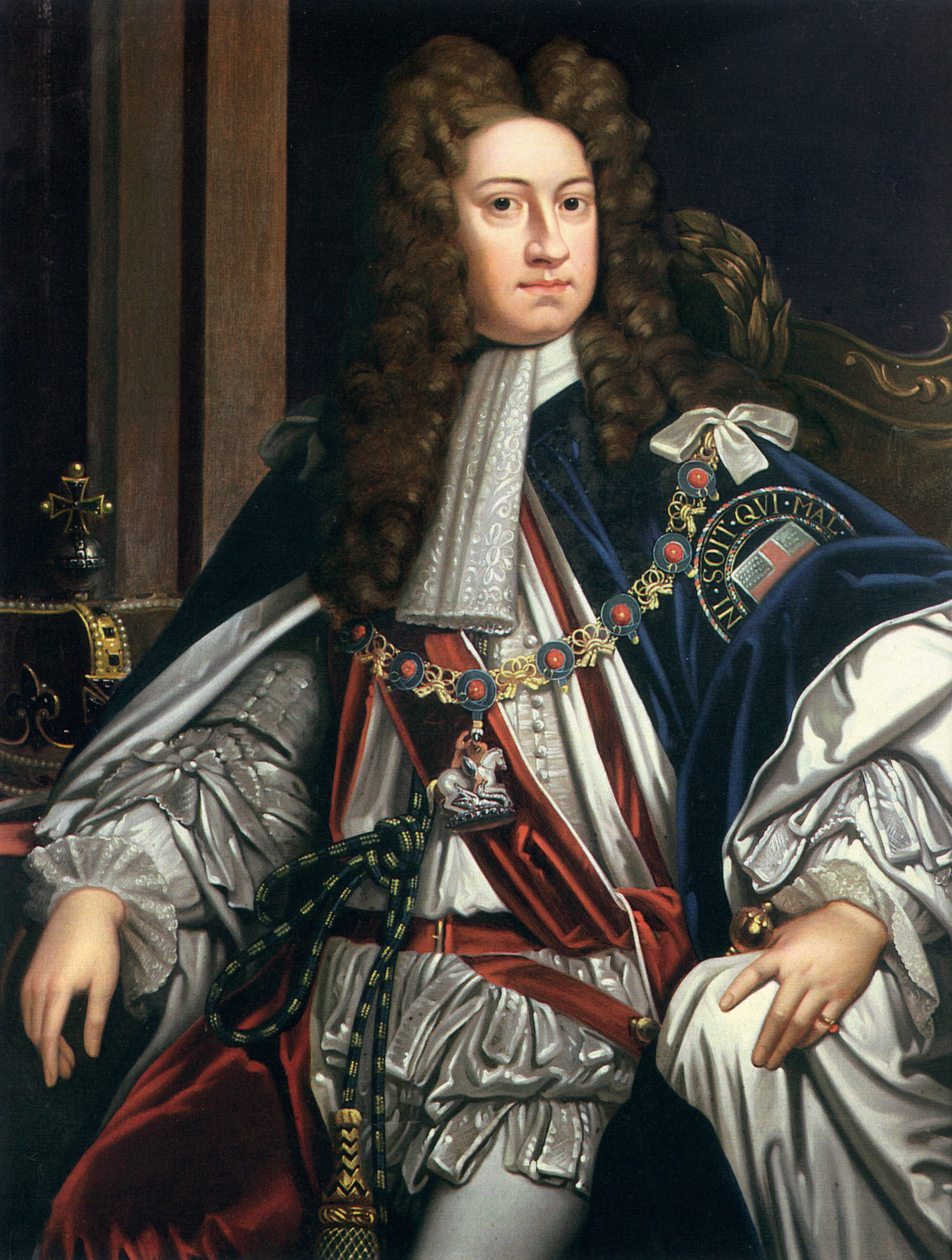 Detail of a portrait of George I of Great Britain